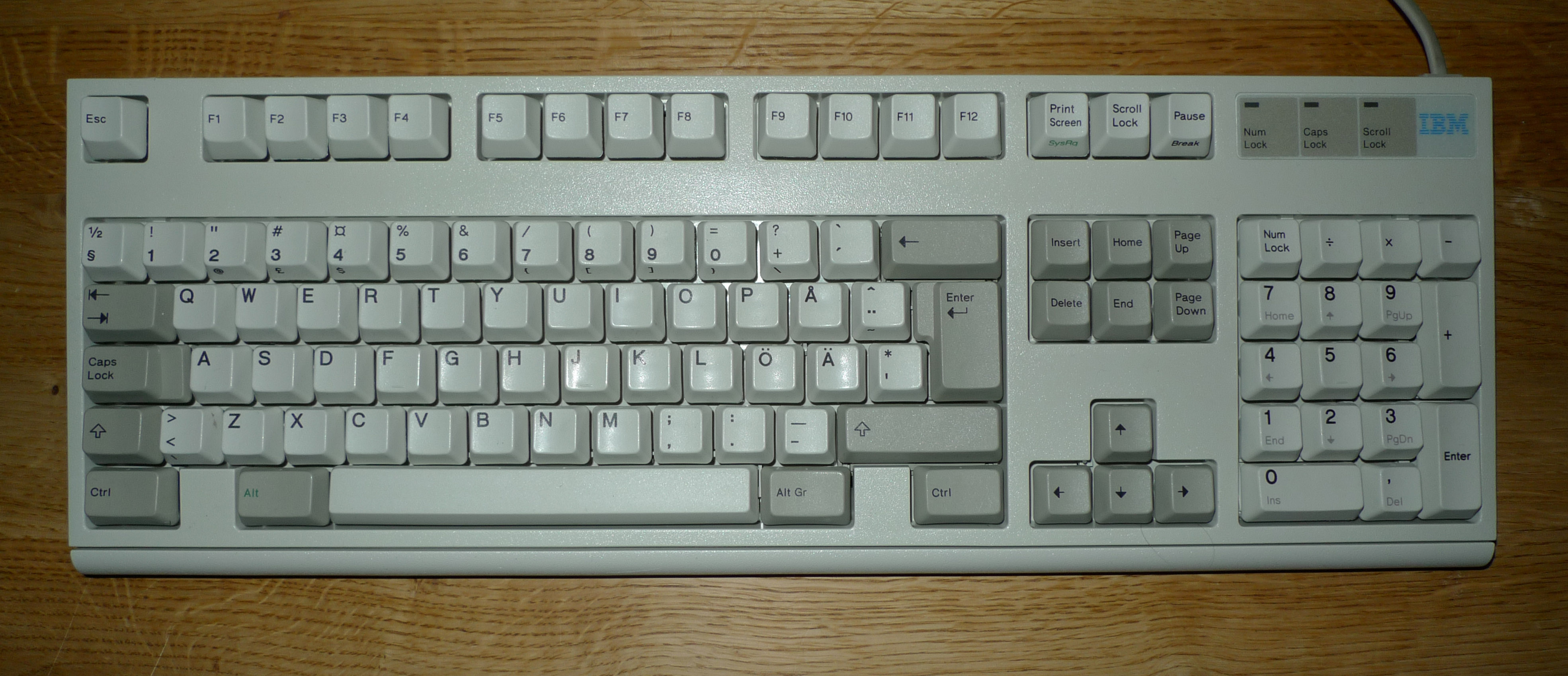 IBM Model M2, manufactured in the U.K. on 1992-12-21, with a layout for Sweden and Finland. Part number: 1395713